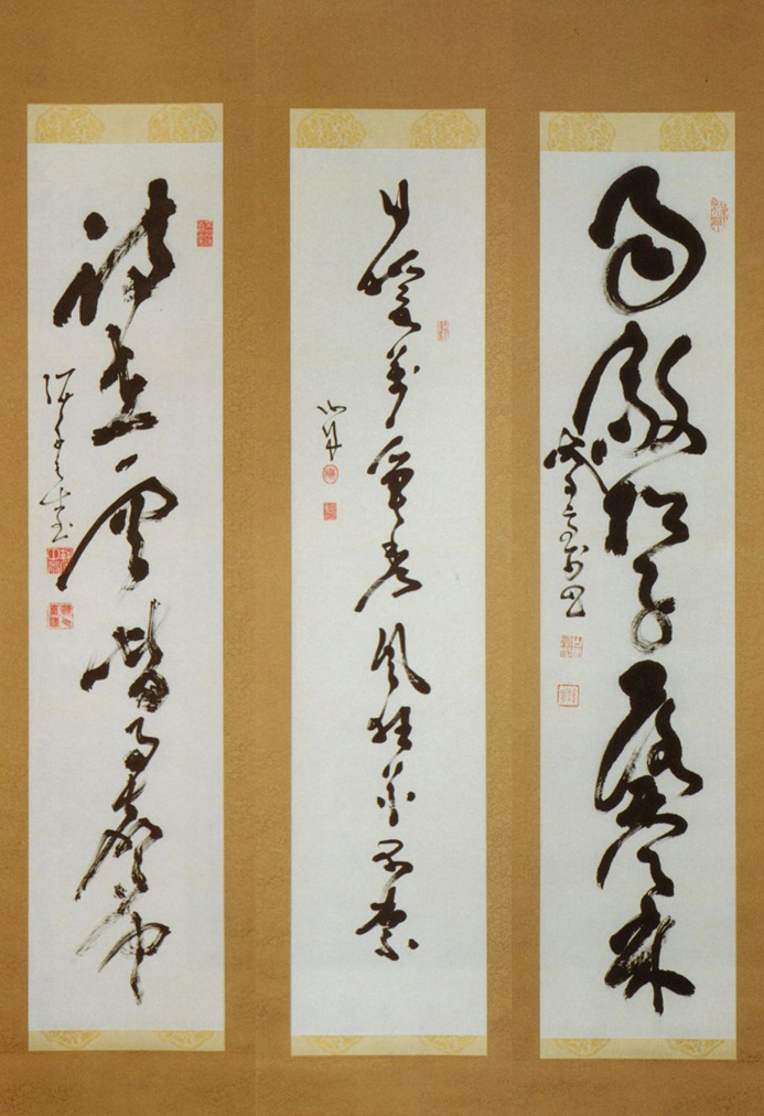 3 Calligraphies of Bakumatsu Sanshu,all of hanging scroll and ink on paper,left Takahashi Deishu,center Katsu Kaishu,right Yamaoka Tesshu 幕末三舟、3幅対、左 高橋泥舟、中央 勝海舟、右 山岡鉄舟